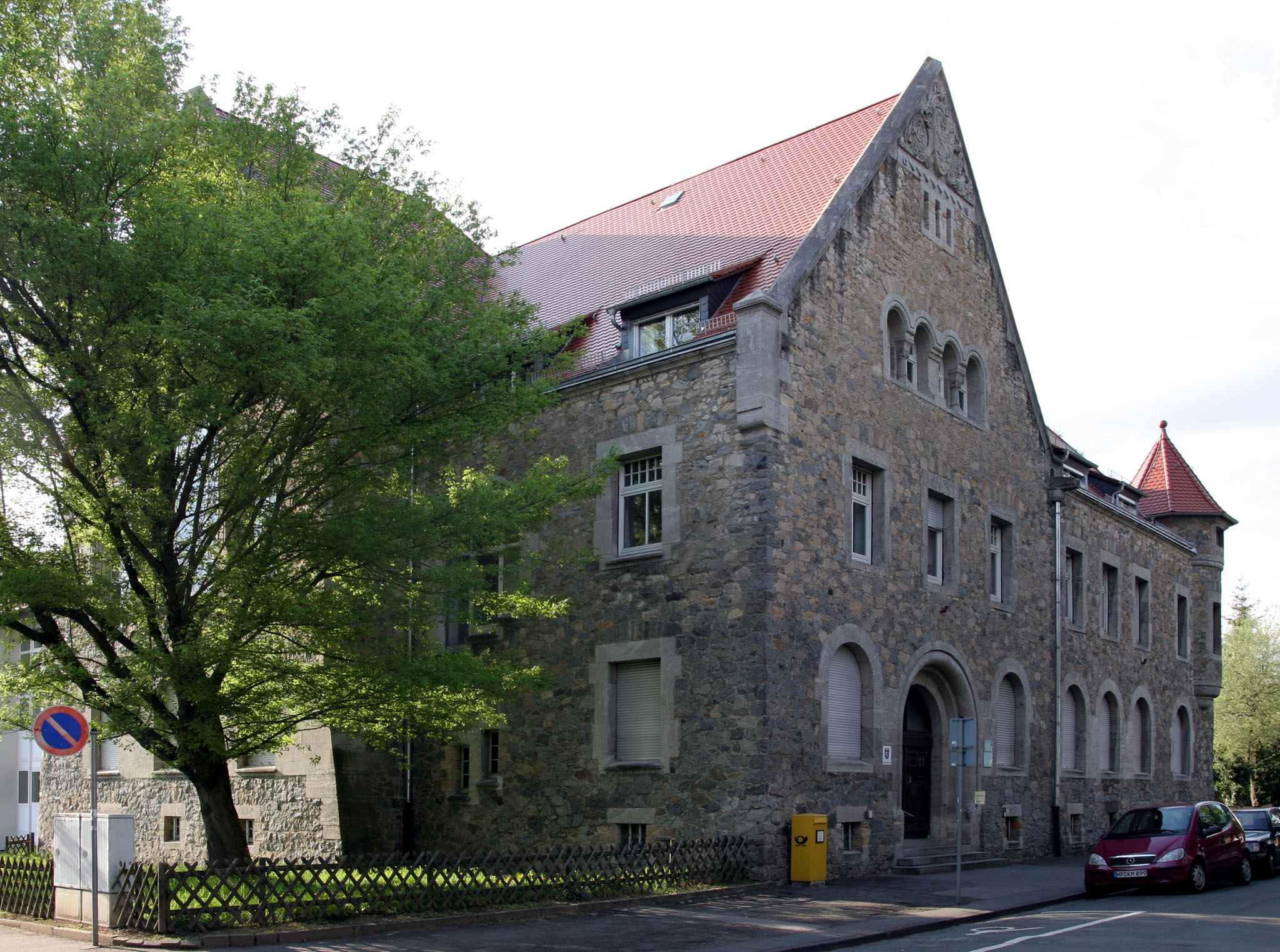 Local Court of the city of Bensheim (Germany)